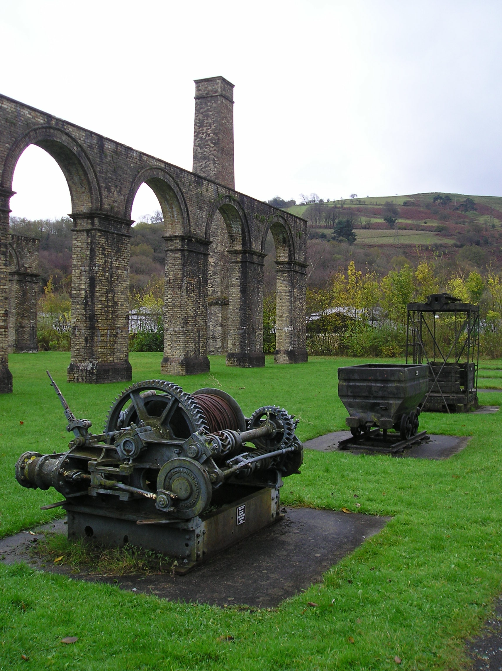 Ynyscedwyn Iron Works